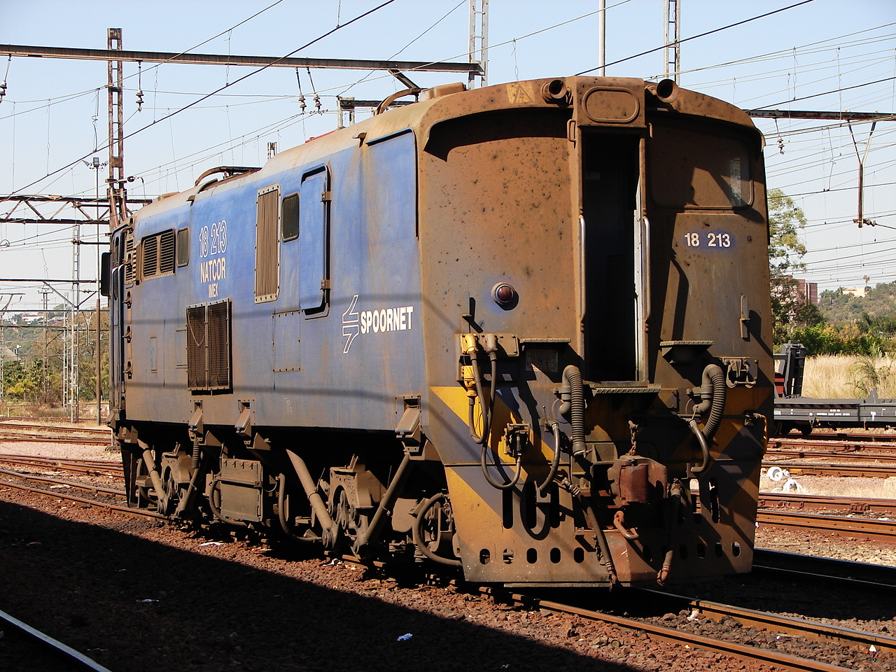 Spoornet Class 18E Series 1 18-213Location: Capital Park, Pretoria, GautengHistory: Rebuilt in 2005 from Class 6E1 Series 7 E1873